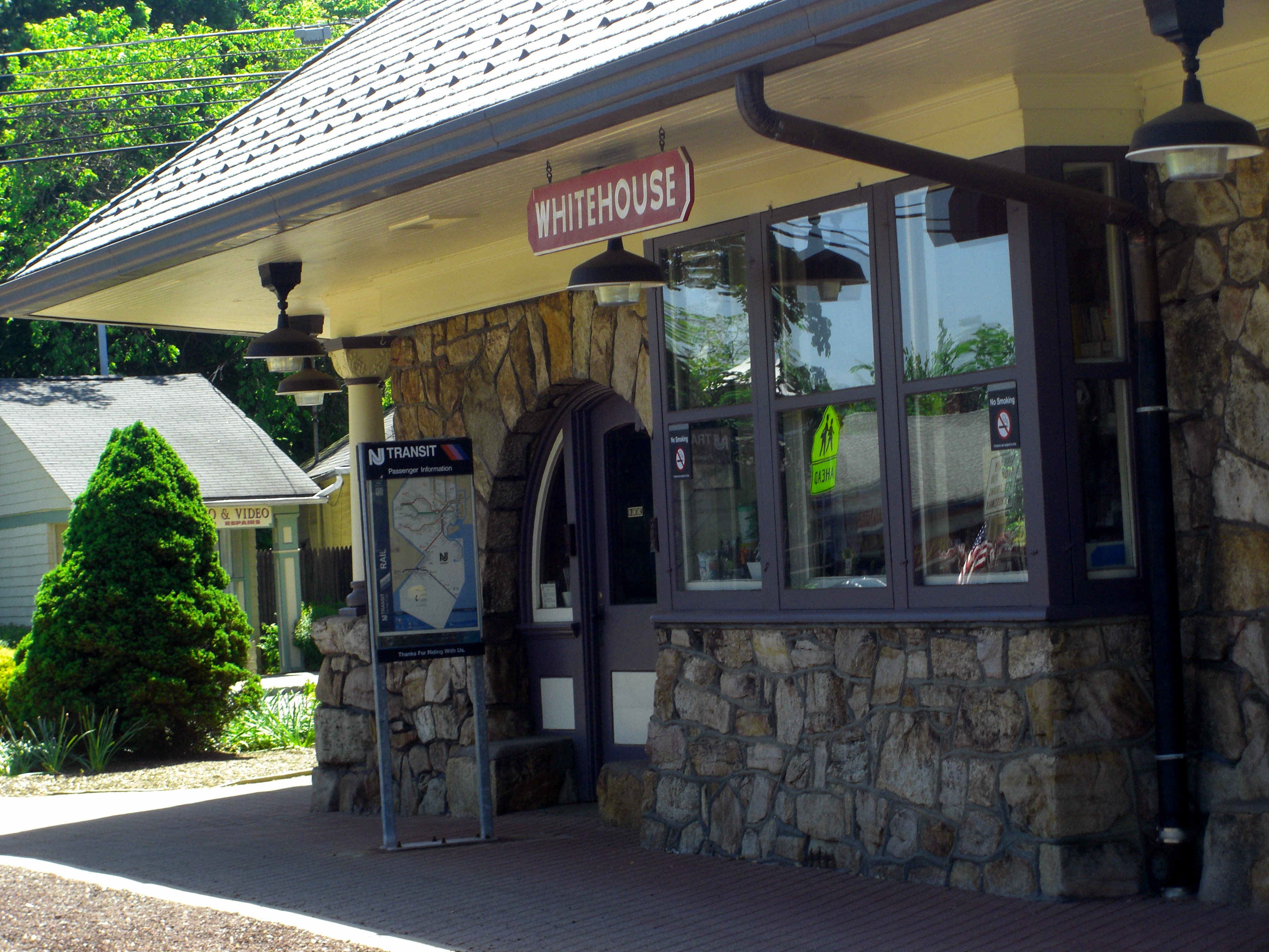 The Readington Township Library and Whitehouse New Jersey Transit station.